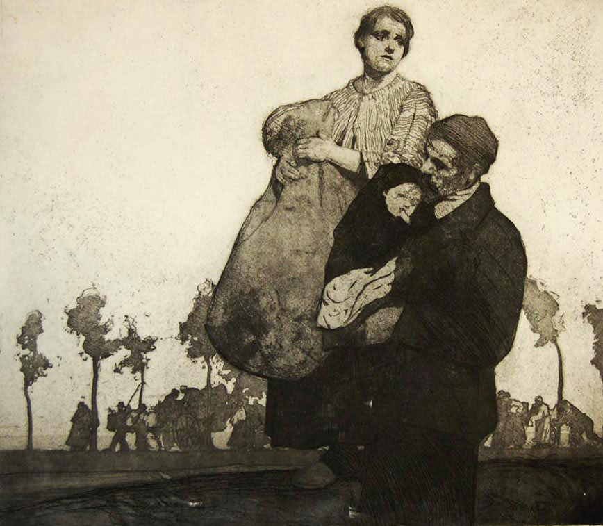 "The Refugees", an etching based on William Lee Hankey's observations just behind the front line at Étaples in 1914